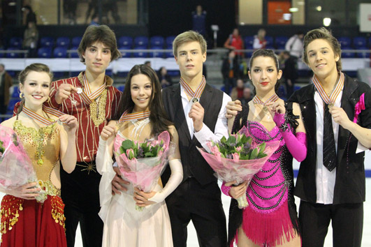 Alexandra PAUL and Mitchell ISLAM (2), Elena Ilinykh and Nikita Katsalapov (1), Ksenia Monko and Kirill Khaliavin (3) at the podium 2010 World Junior Figure Skating Championships